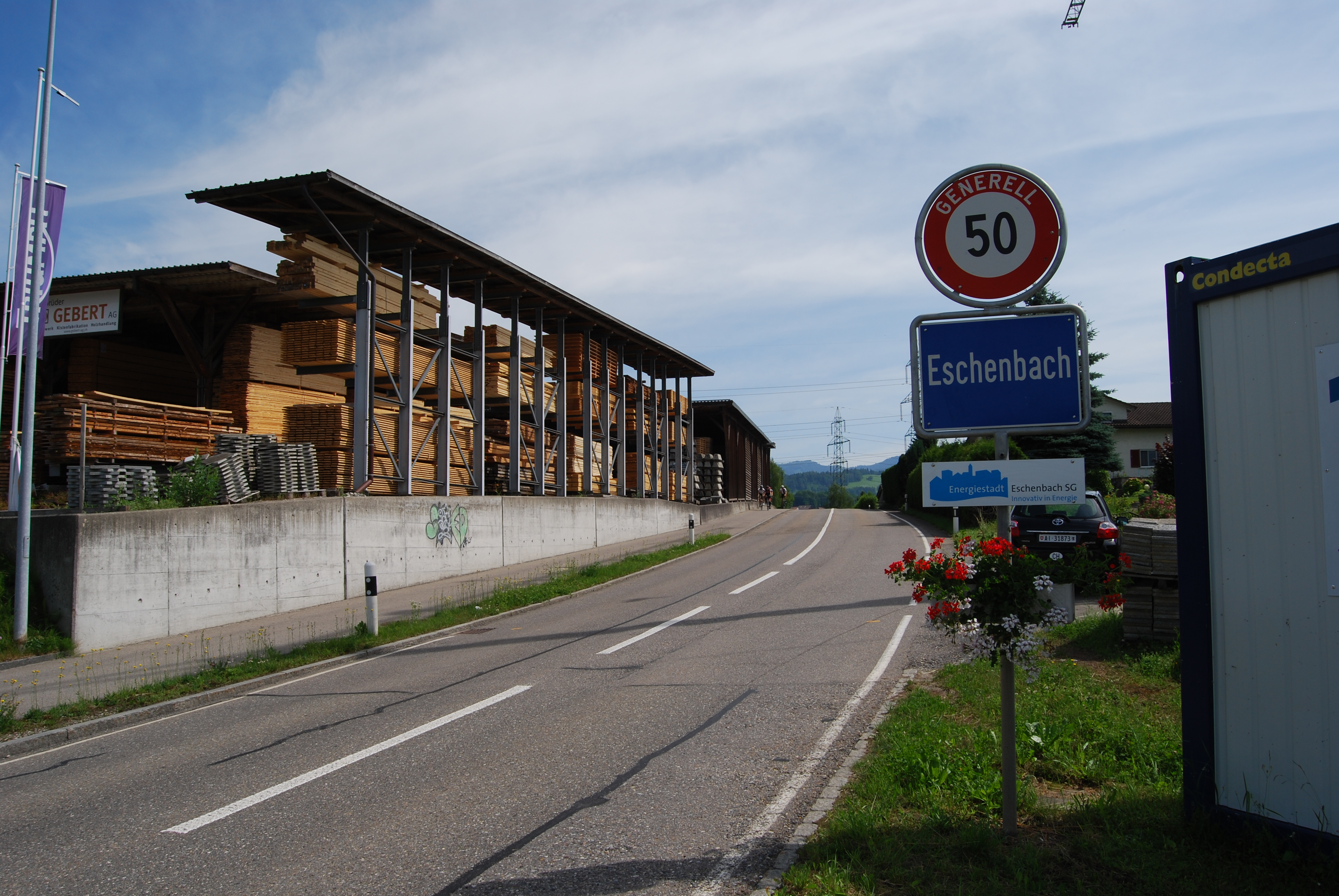 Eschenbach, canton of St. Gallen, SwitzerlandEsperanto: Eschenbach, Kantono Sankt-Galo, Svislando